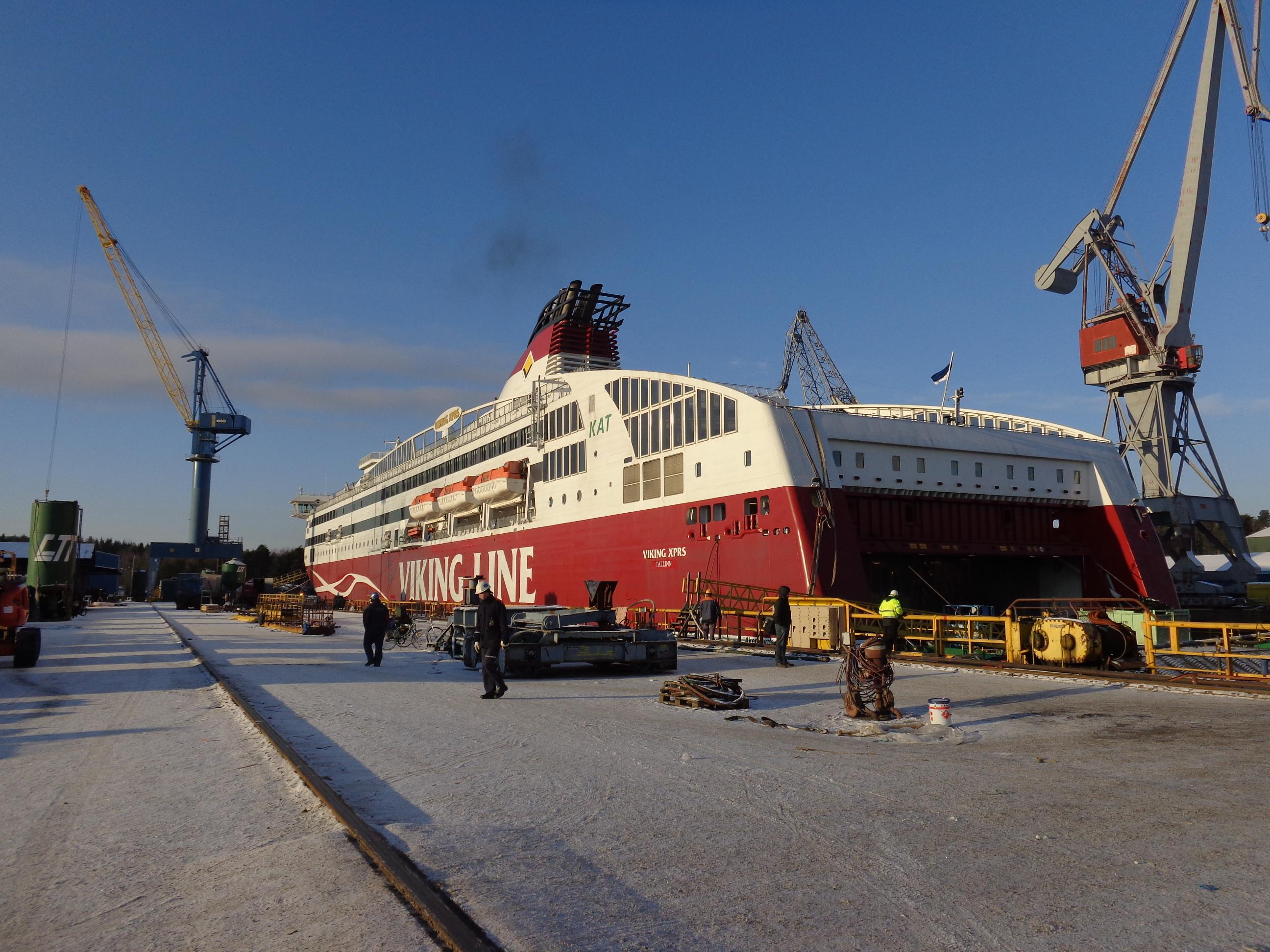 MS Viking XPRS at Turku Repair Yard, Naantali, Finland, 23 January 2014